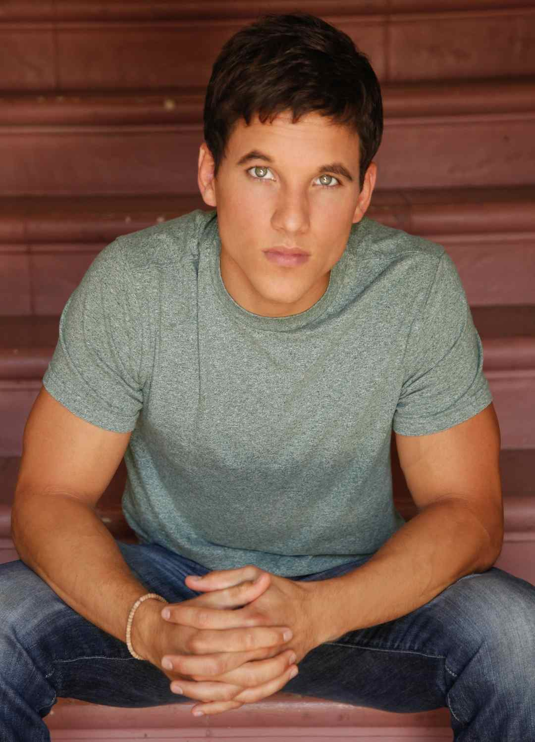 Photo of actor Mike Manning